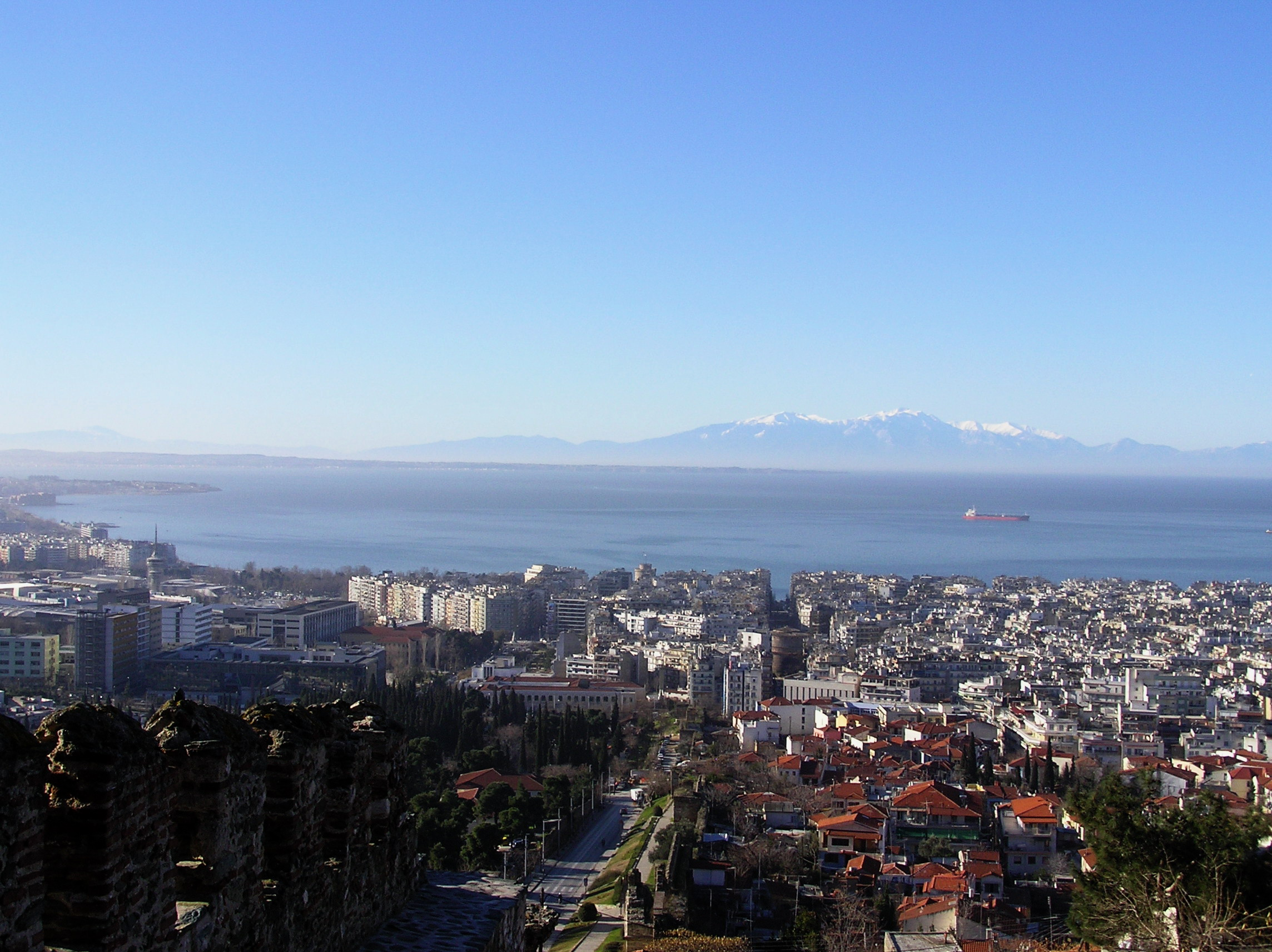 View of Thessaloniki and the Thermaic Gulf from Ano Poli in Greece. In the background, Mount Olympus is visible. Photo taken 2007.